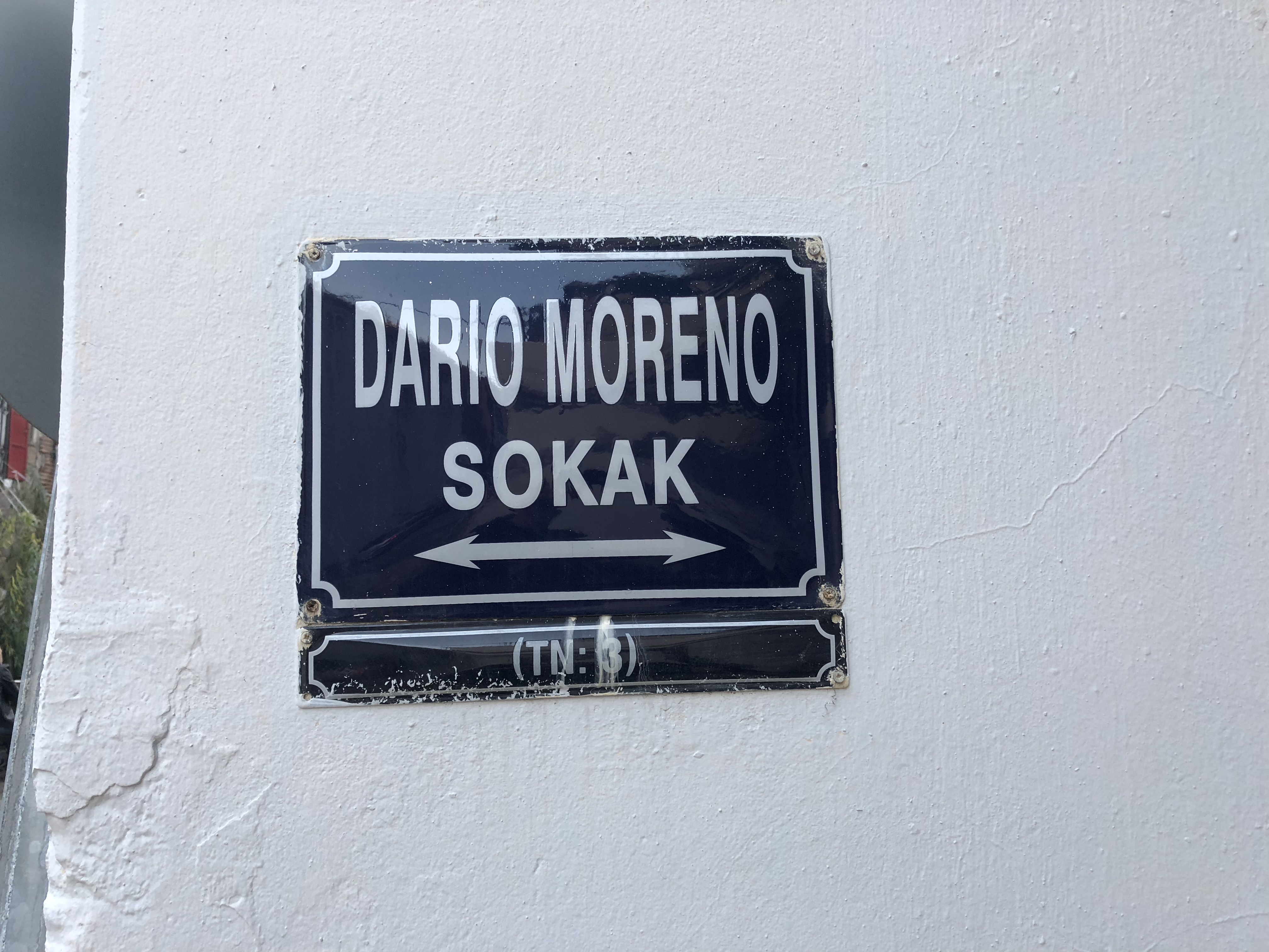 Dario Moreno Street sign